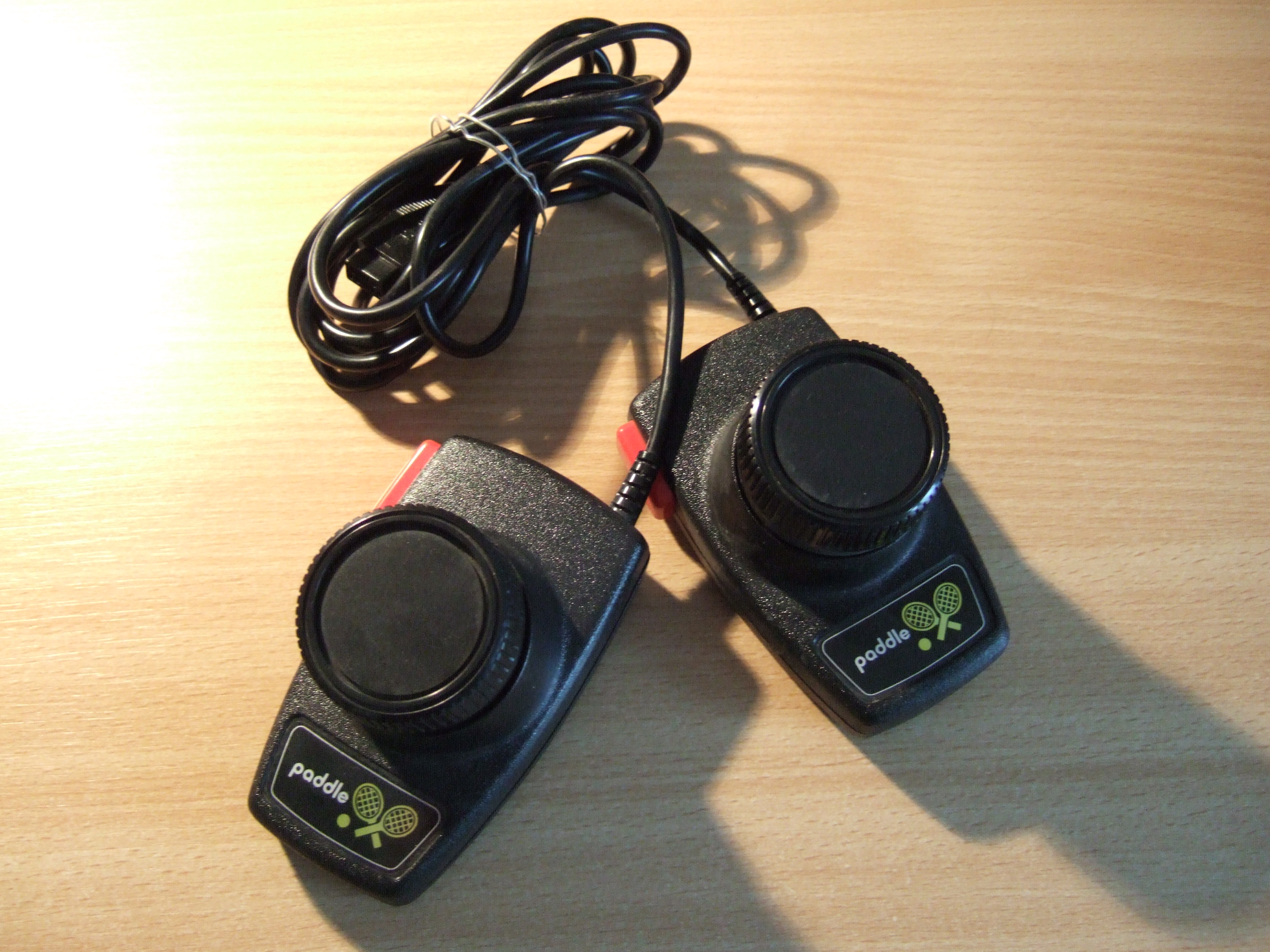 Atari Paddle for the Atari 2600